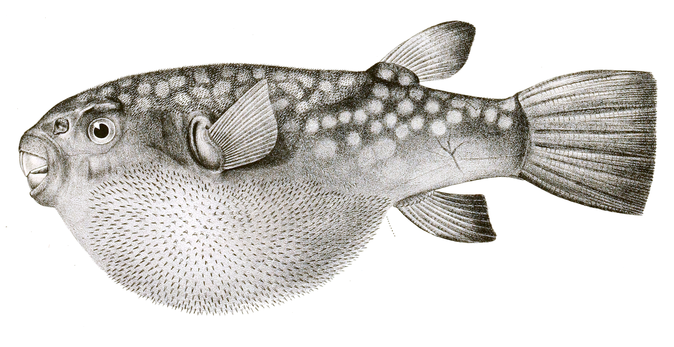 Chelonodon patoca syn. Tetrodon patoca The species names / identity need verification - original names from plate are included here. The original plates showed the fishes facing right and have been flipped here. Tetrodon patoca